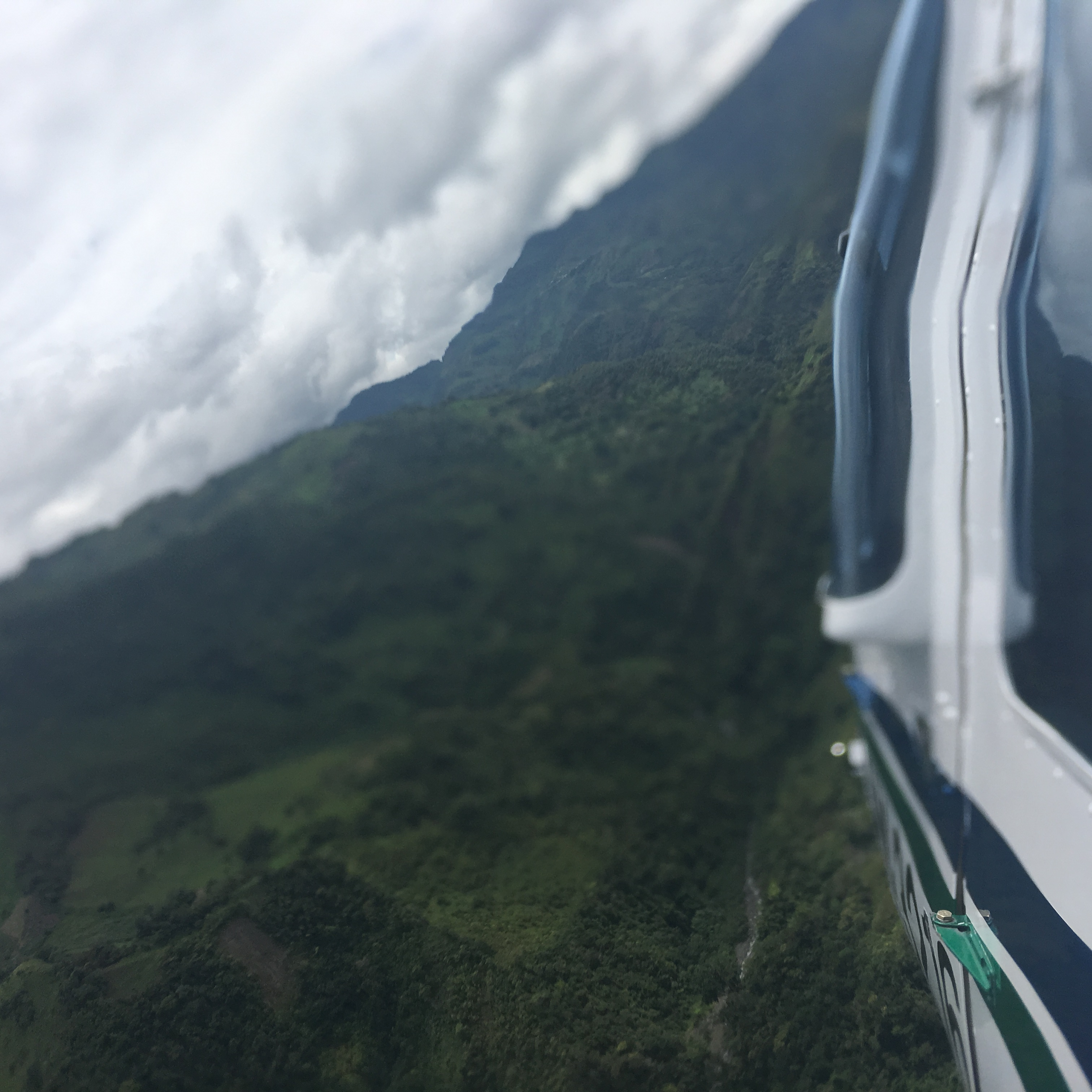 Helo visit 11 LP